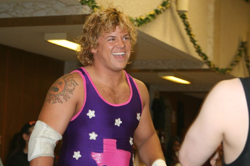 Larry Sweenet at Chikara's Young Lions Cup Night 3 show in June 2008.